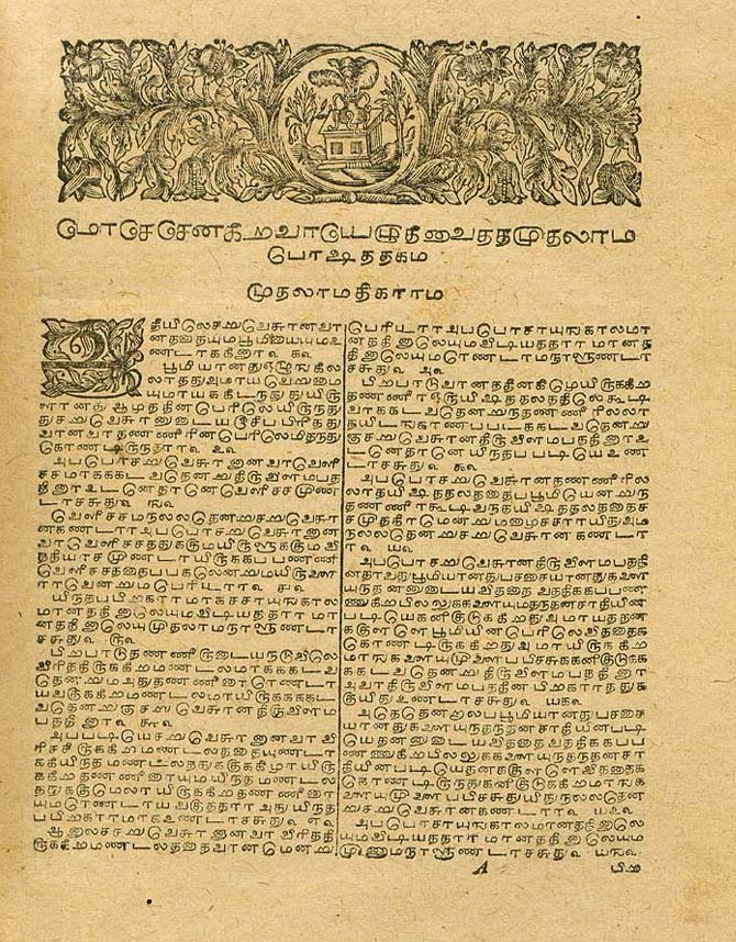 This Tamil bible is translatet by Bartholomäus Ziegenbalg and Benjamin Schultze and published in Tranquebar in 1723.